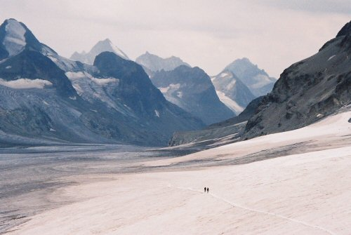 Photo by Seabhcan. Image of part of the Haute Route, Switzerland, 2003